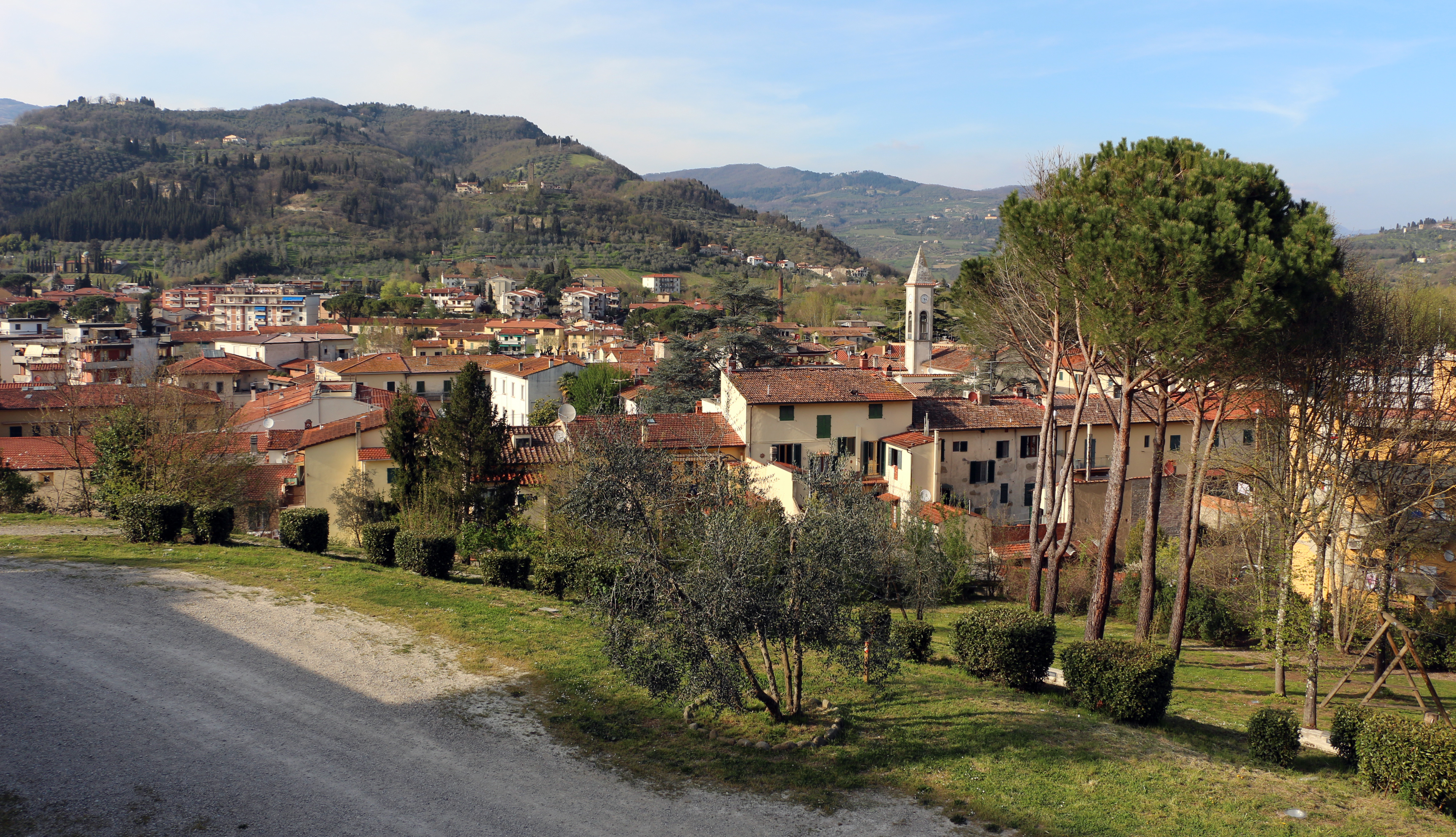 Rufina